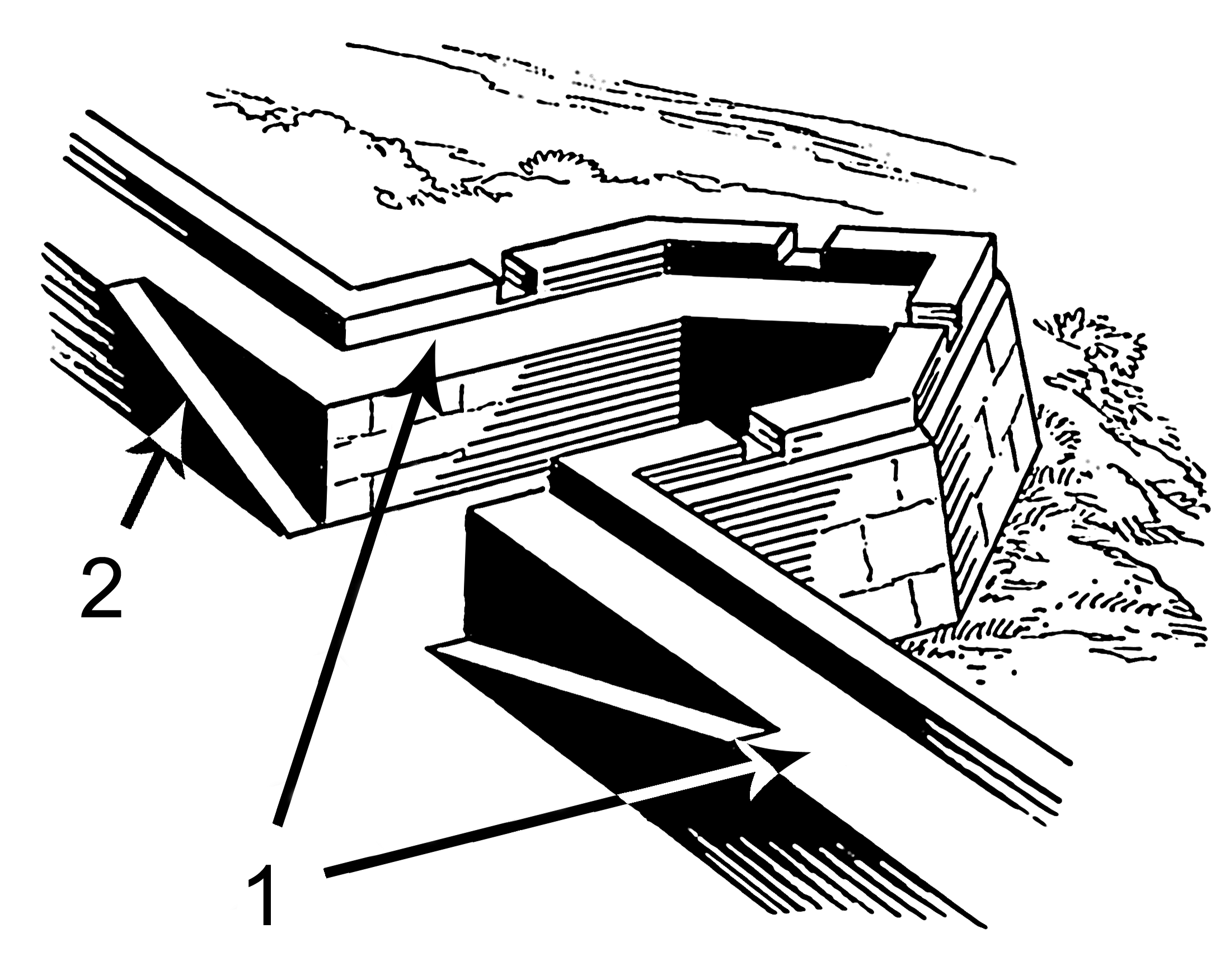 Line art drawing of a banquette: a foot path or elevated step, here depicted along the inside of a bastion.